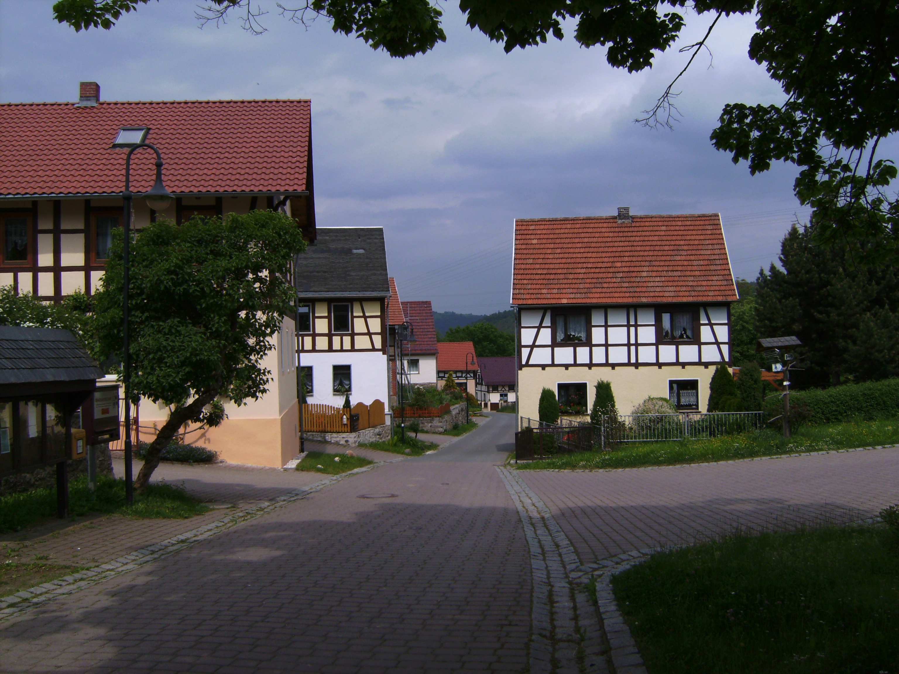 Weischwitz, view to a street